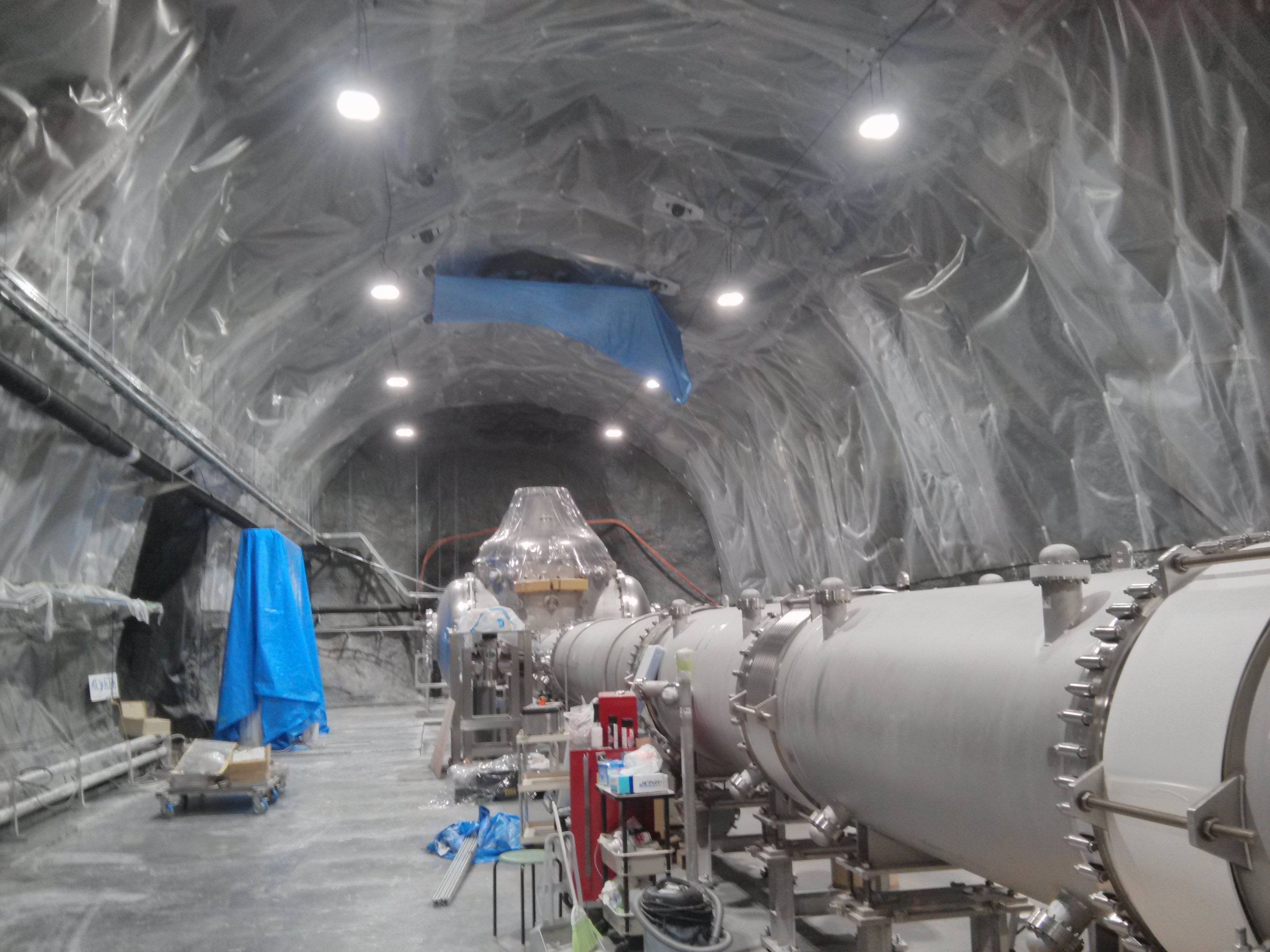 Part of the currently in-construction KAGRA gravitational-wave detector. The foreground shows the vacuum tube for one of the laser-interferometer arms. The backgrounds shows where a mirror will be suspended from the room above. The detector is situated underground, in part of the old Kamioka Mine.